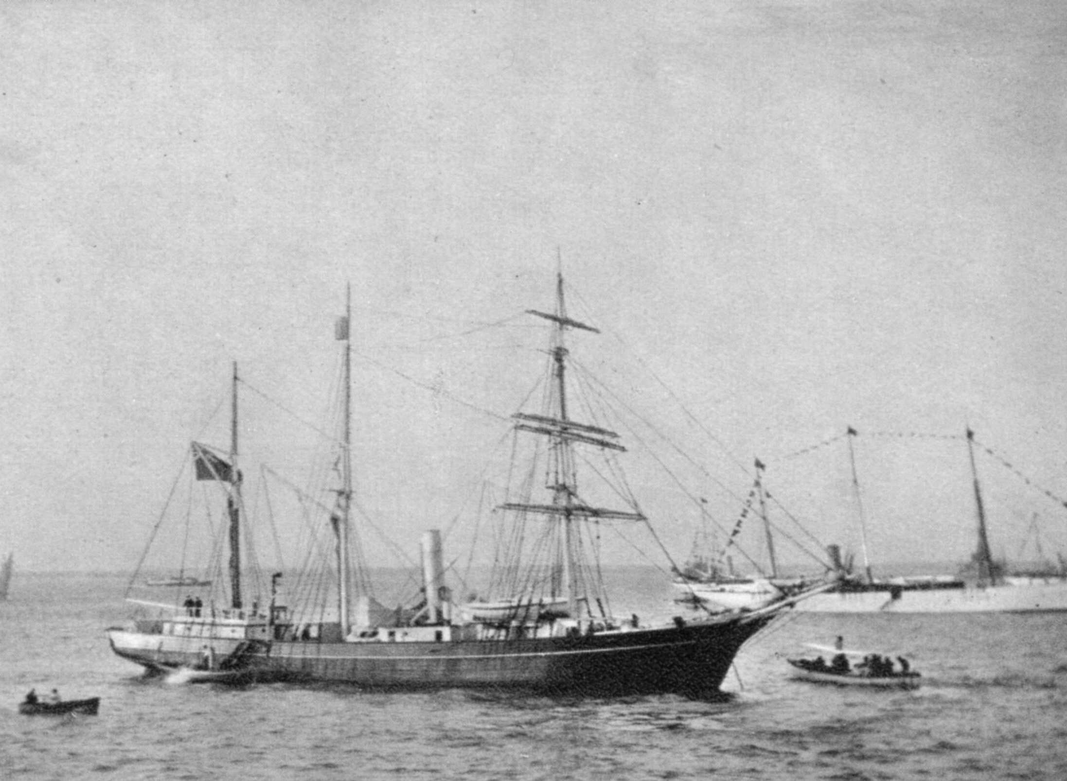 Original caption, 'The Nimrod (Captain Shackleton) going to the south pole (1907)'. Presumably departing from Britain since taken by Alexandra, also presumably on an official viewing. However, Ernest Shackleton apparently travelled later on a different ship to New Zealand to meet NImrod.